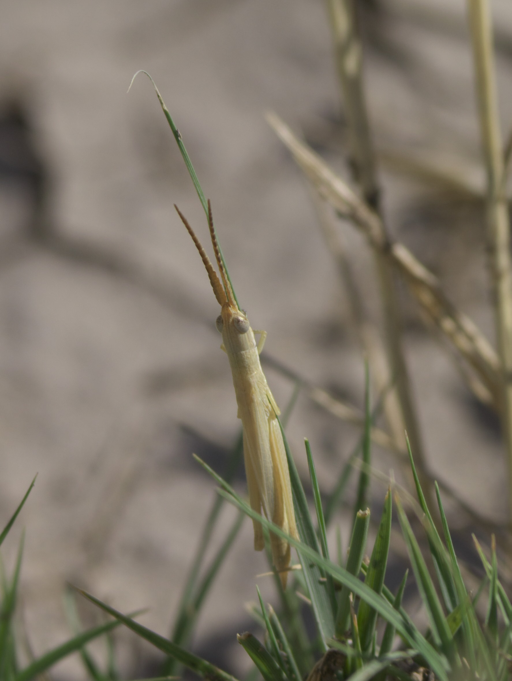 Paropomala wyomingensis, Wyoming Toothpick Grasshopper, ID Confidence: 88